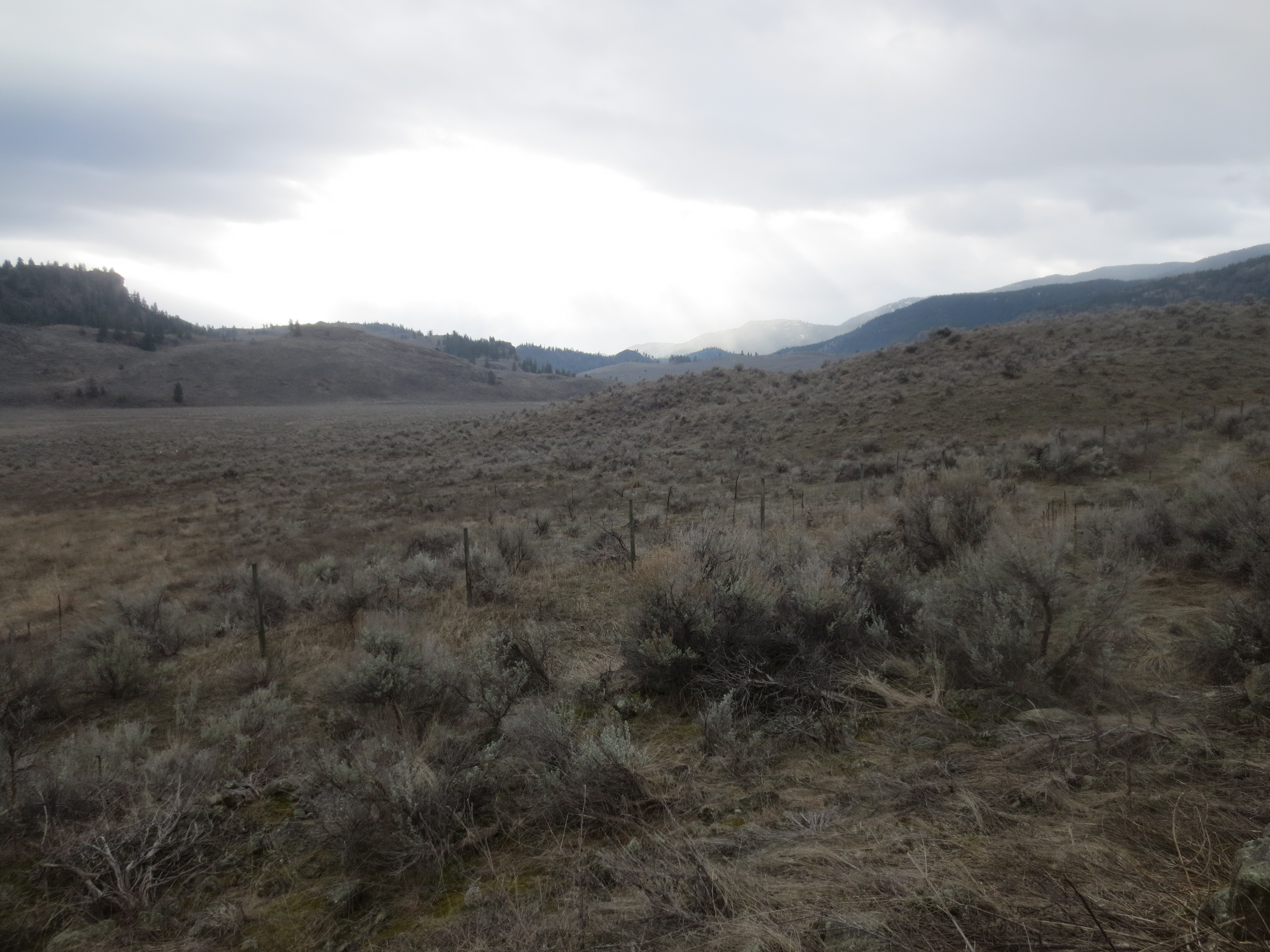 Okanagan Highland in winter, near the Dominion Radio Astrophysical Observatory